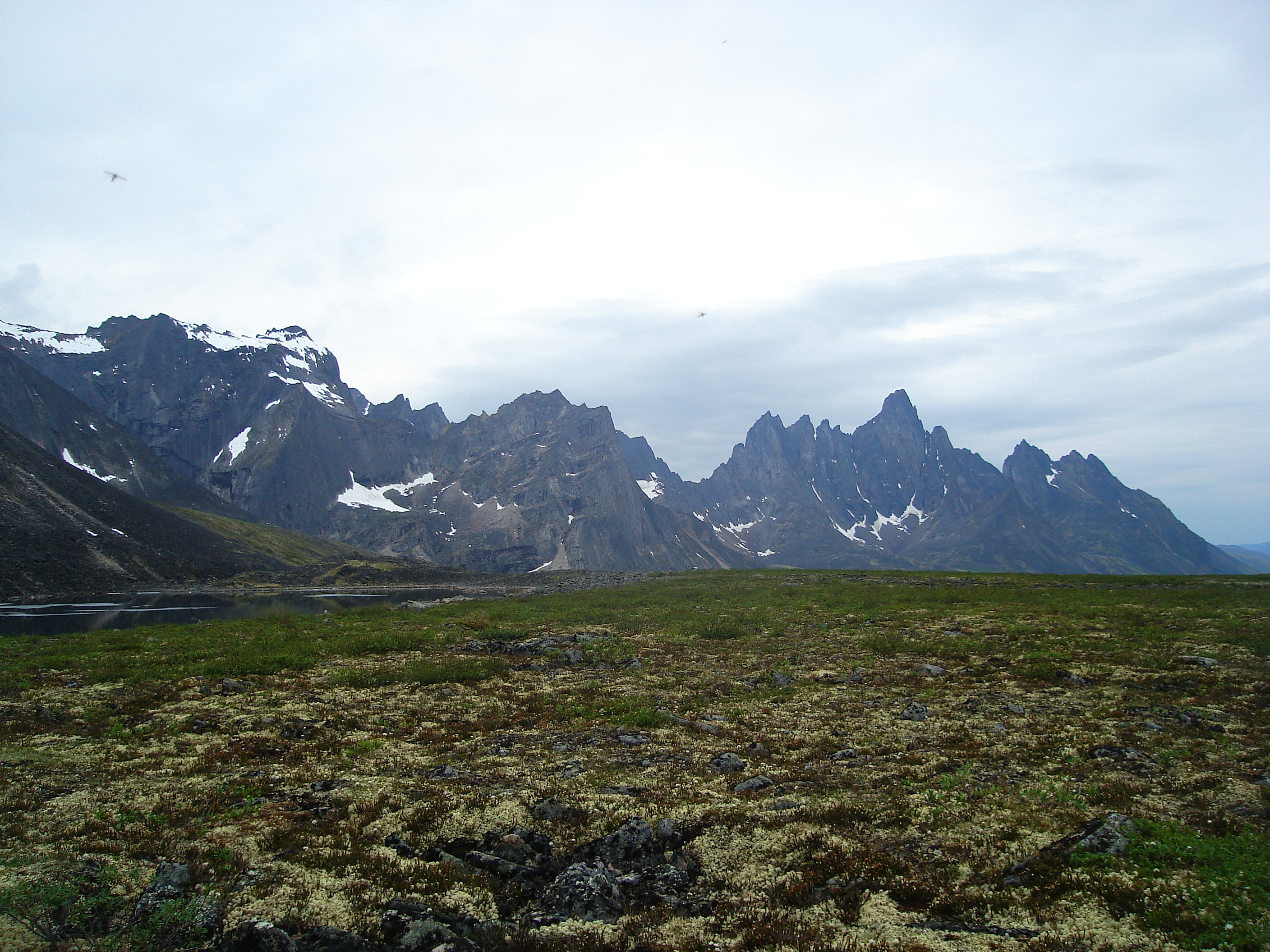 Tombstone Mountain (Center Left)